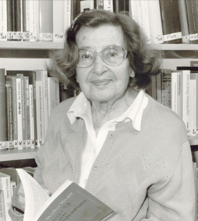 German writer and librarian Else Levi-Mühsam ca. 1982